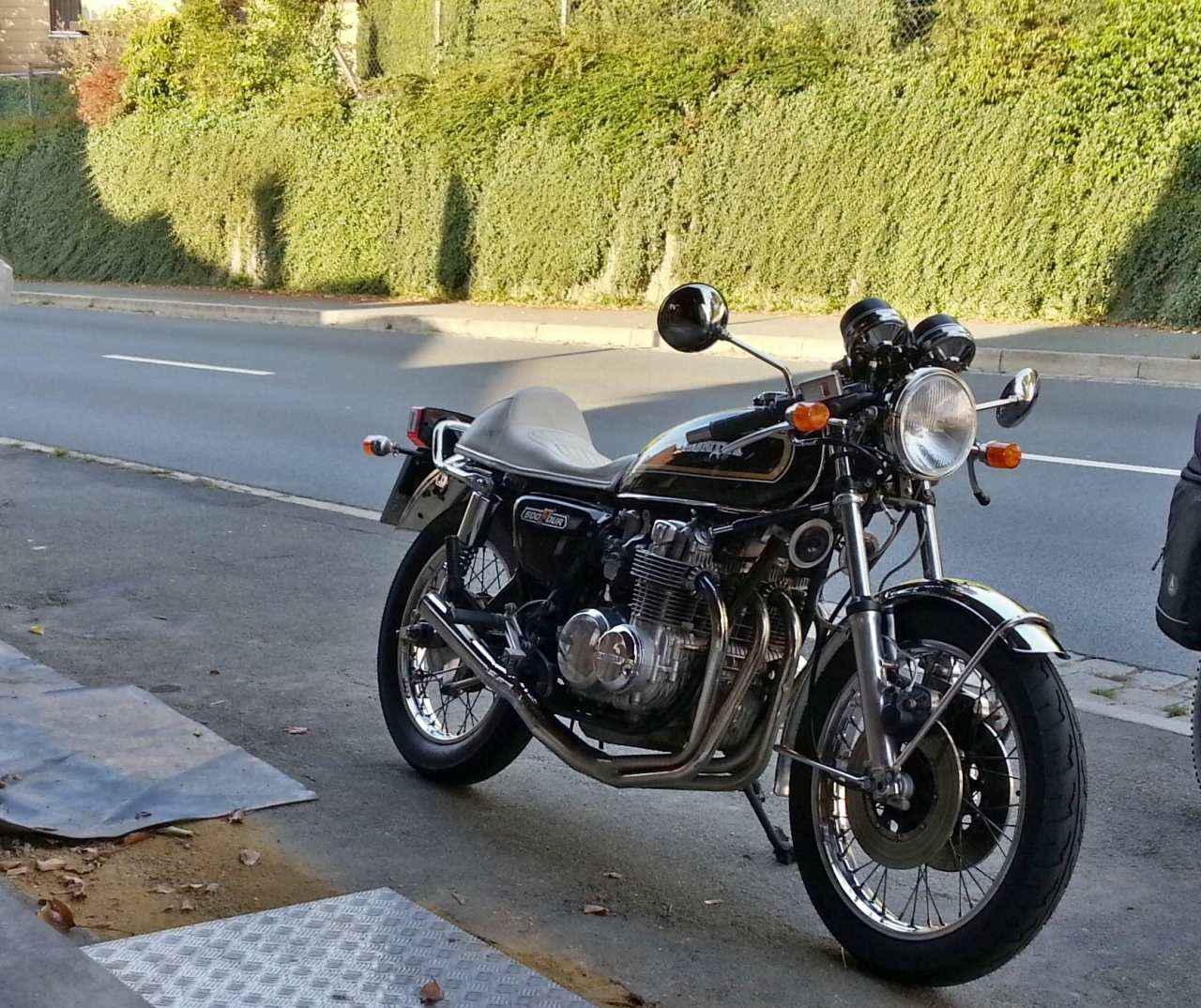 My 500 four